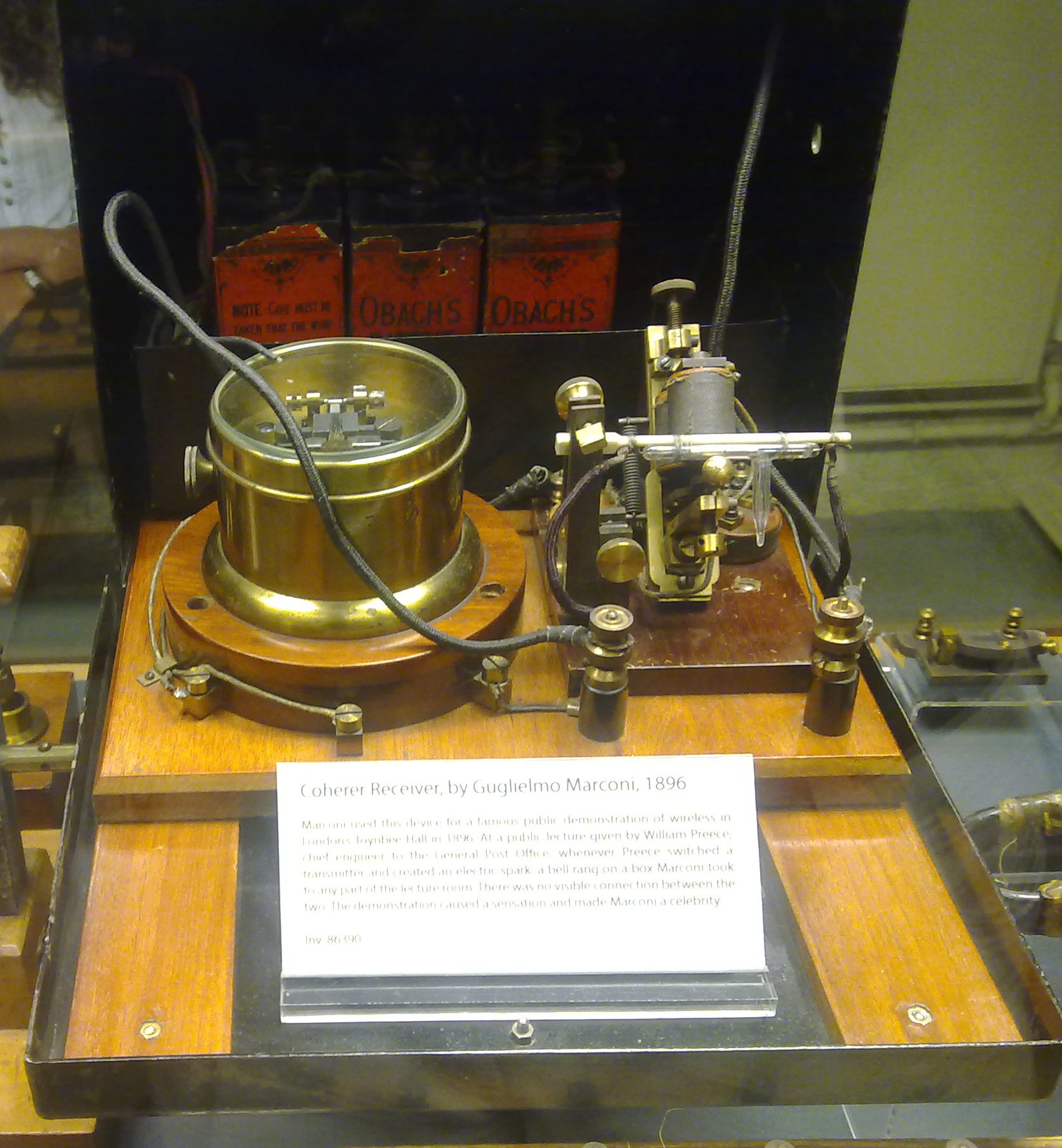 One of the first radio receivers, constructed by Italian radio inventor Guglielmo Marconi in 1896, on display in the Oxford Museum of the History of Science, UK. It used a coherer, a tube of metal filings, as a radio wave detector, connected to a wire antenna. The coherer is the glass tube on the right. When it detected a radio signal the resistance of the coherer would drop, and DC current from a battery would flow through it and turn on the relay in the cylindrical container at right, ringing a bell. This receiver was used by Marconi in his famous 1896 "black box" demonstration of radio communication at Toynbee hall, London. Caption on card: "Coherer receiver by Guglielmo Marconi, 1896: Marconi used this device for a famous public demonstration of wireless in London's Toynbee Hall in 1896. At a public lecture by William Preece, chief engineer of the General Post Office, whenever Preece switched a transmitter and created an electric spark, a bell rang in a box Marconi took to any part of the lecture room. There was no visible connection between the two. The demonstration caused a sensation and made Marconi a celebrity."